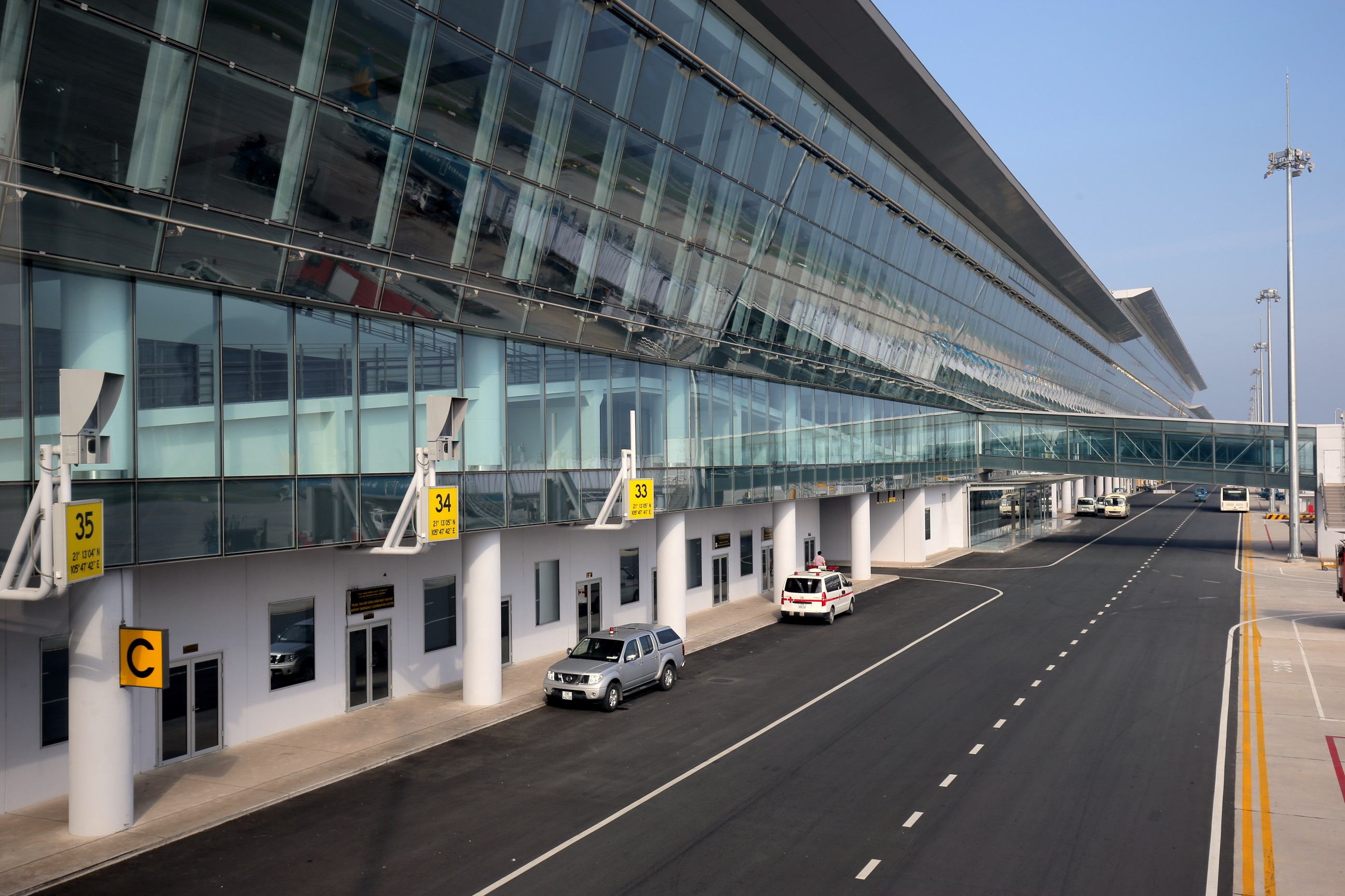 New terminal of Noibai International Airport, Hanoi, Vietnam